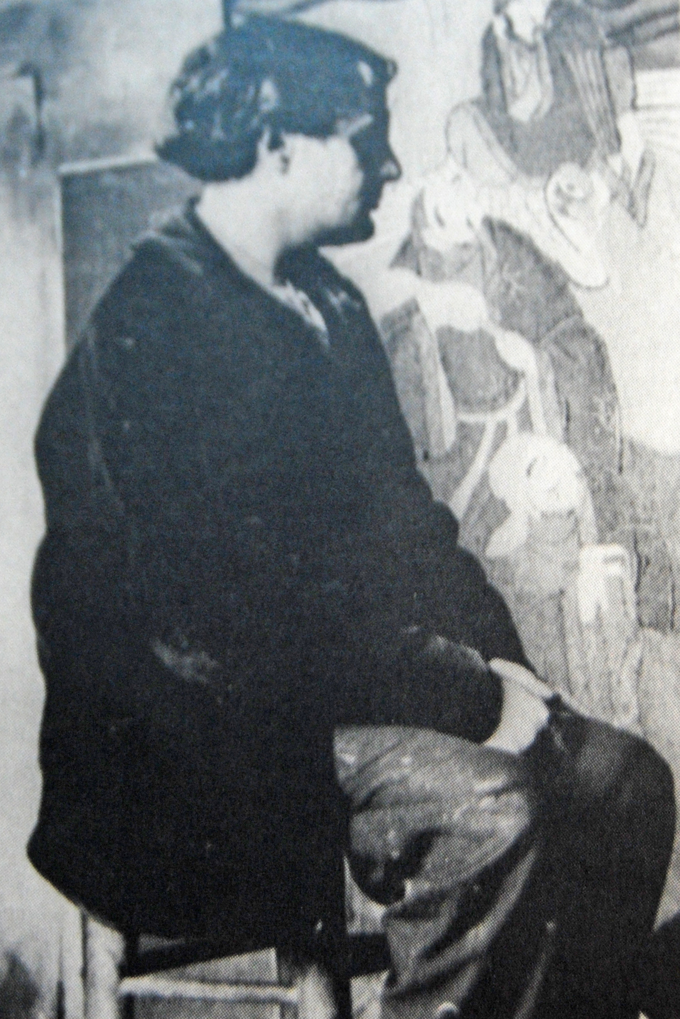 Amedeo Modigliani in his atelier of la Cite Falguiere in Montparnasse, in front of a drawing of large scale by T. Foujita.